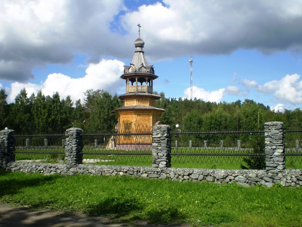 orthodox chapel in Lahdenpohja